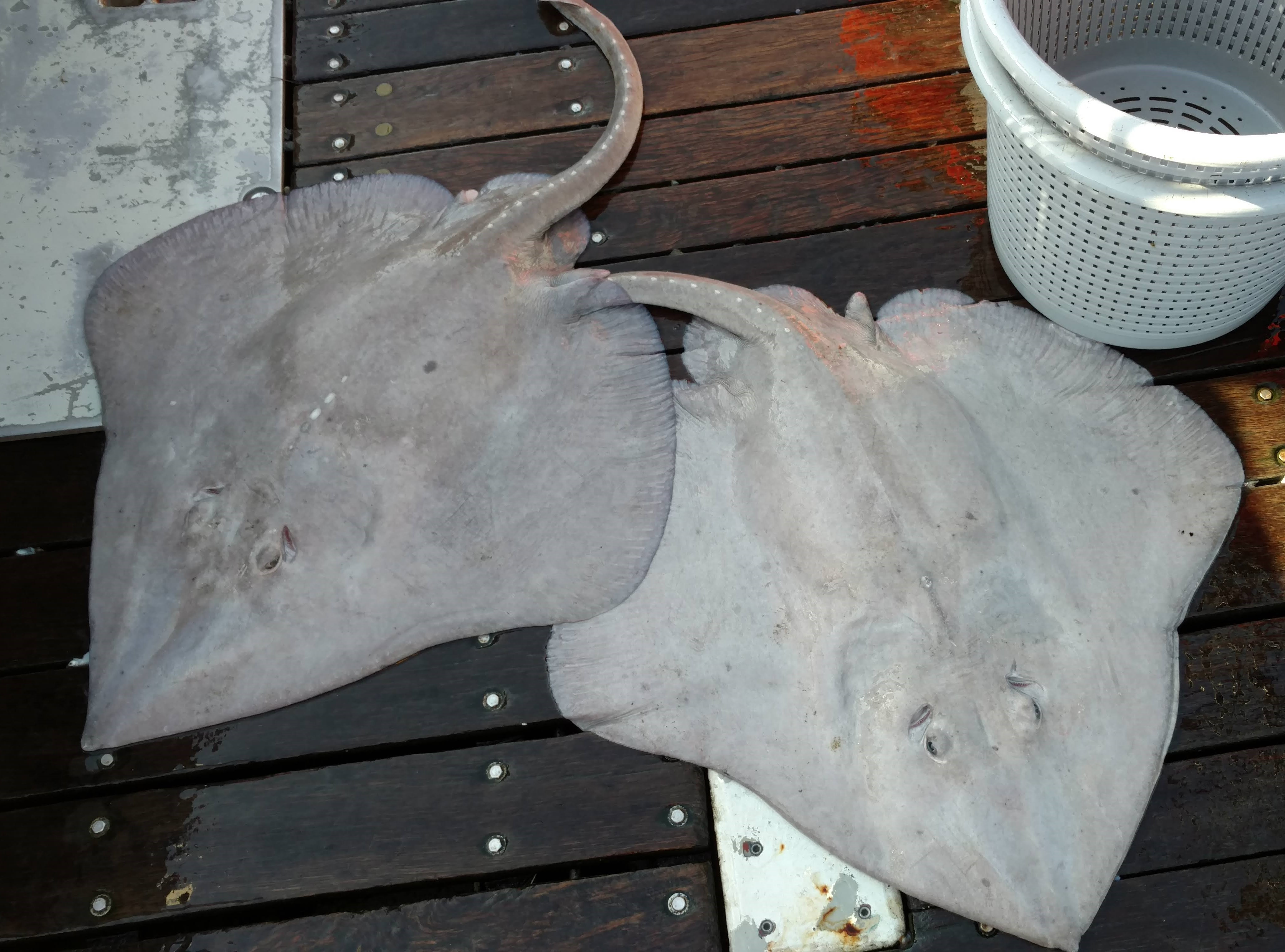 Two Deepsea Skates caught off the coast of central California during a bottom trawl survey